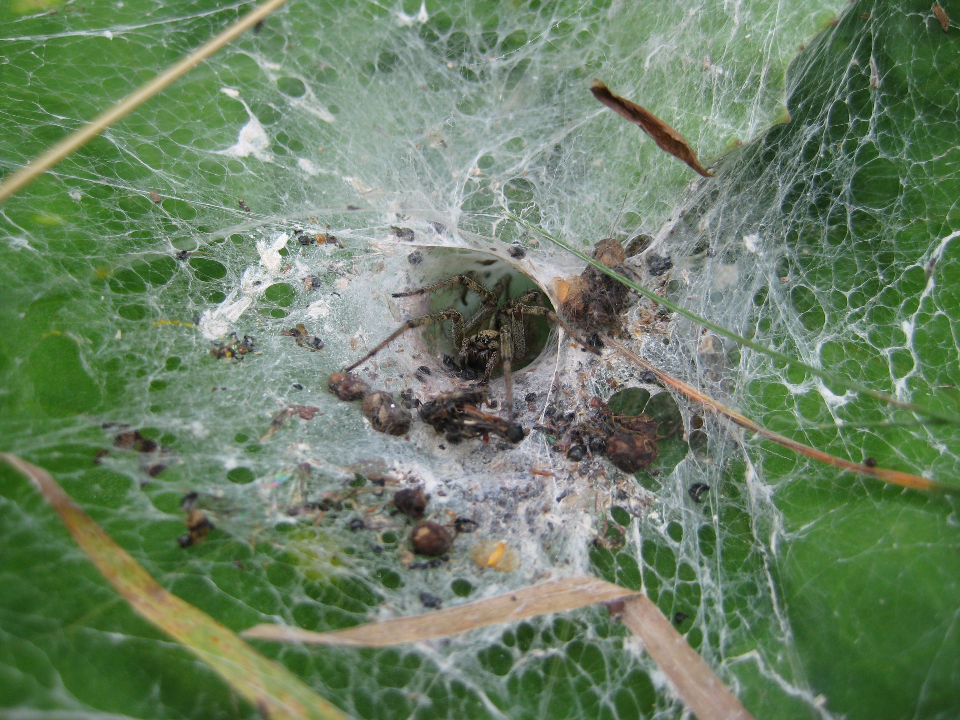 Agelena labyrinthica, found near Elmshorn (Liether Kalkgrube), Germany